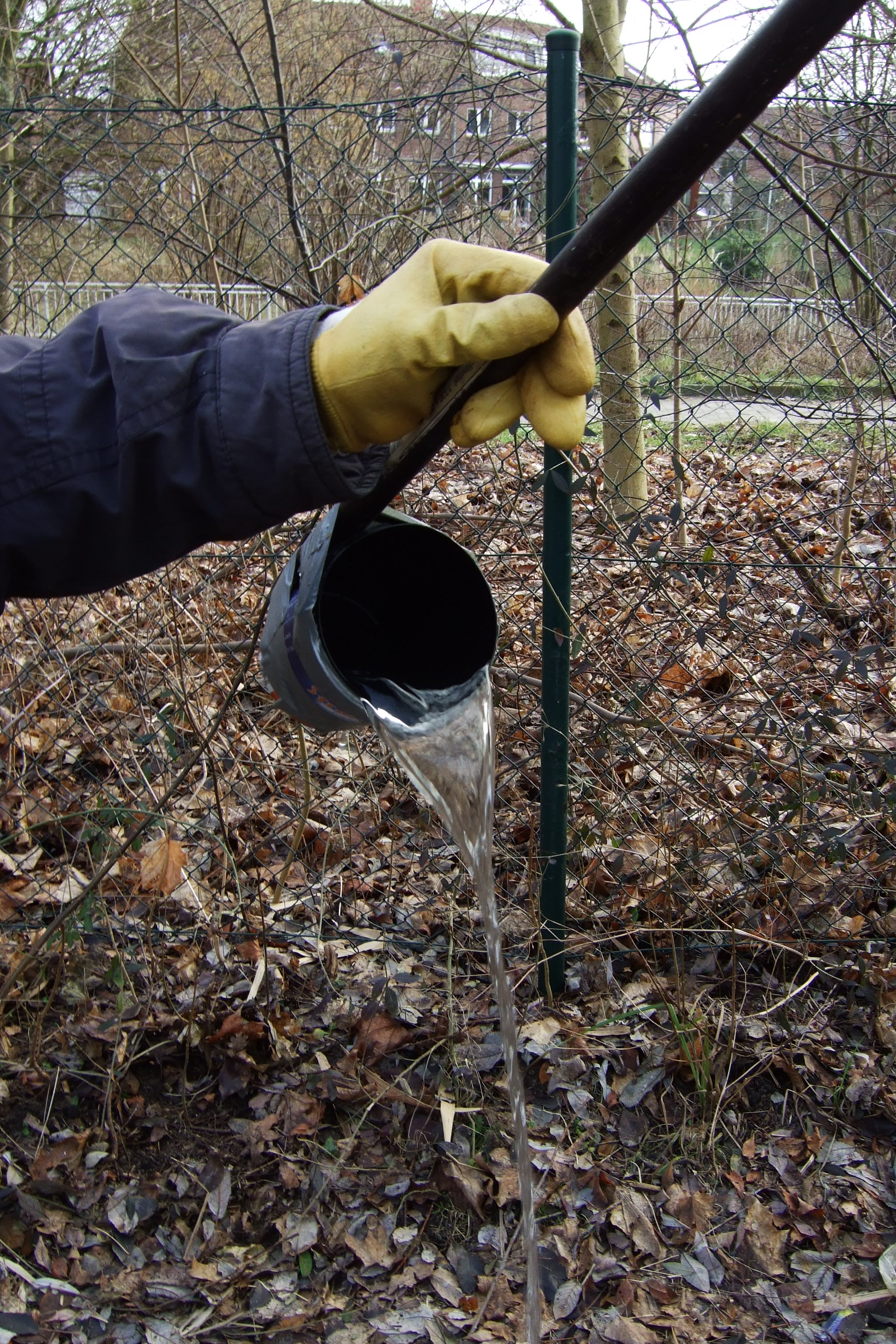 Effluent - pH: 7,29, CSB 16,3mg/l, BSB5 4,5 mg/l.